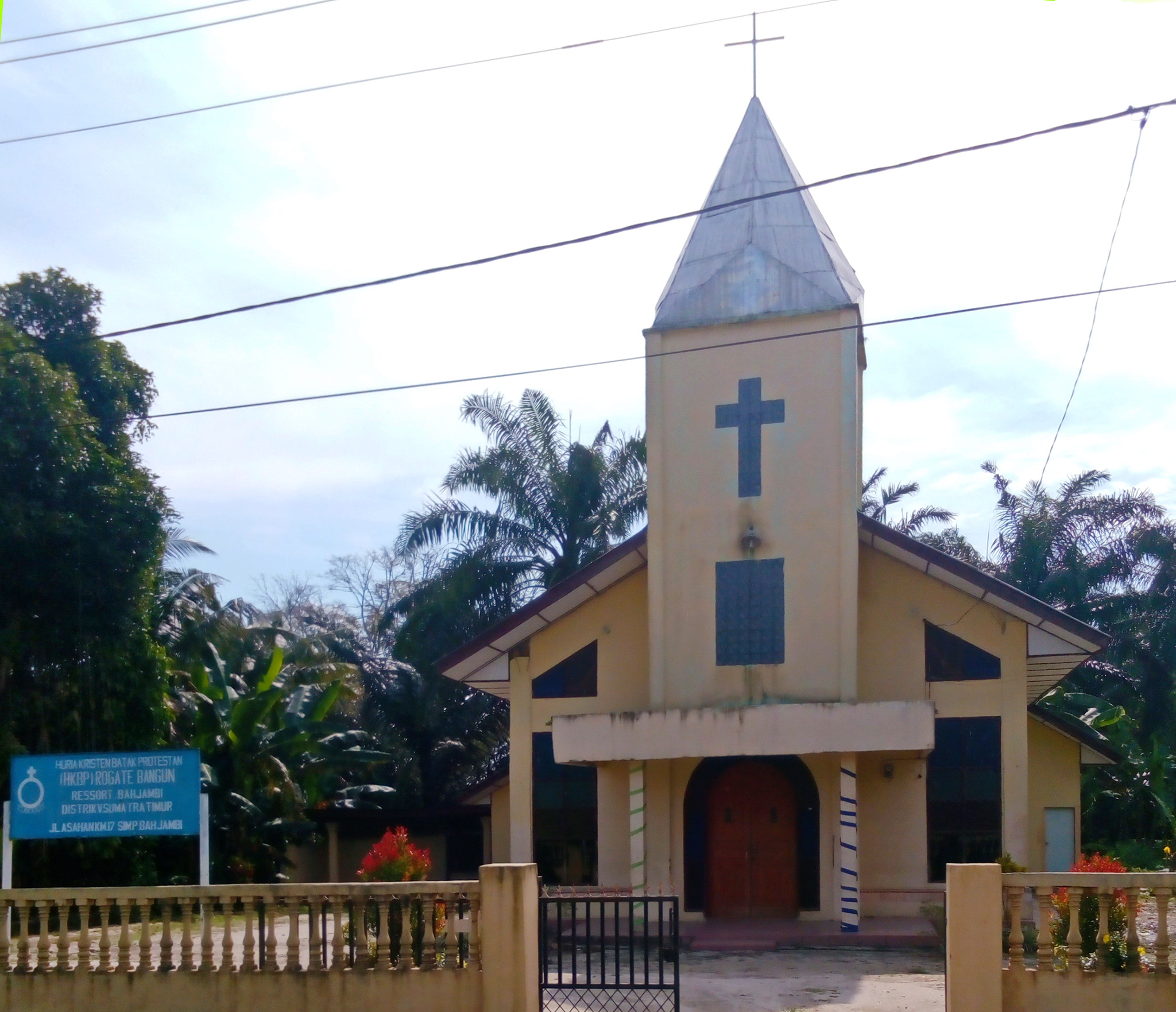 HKBP Rogate Bangun, Church in Bangun, Gunung Malela, Simalungun